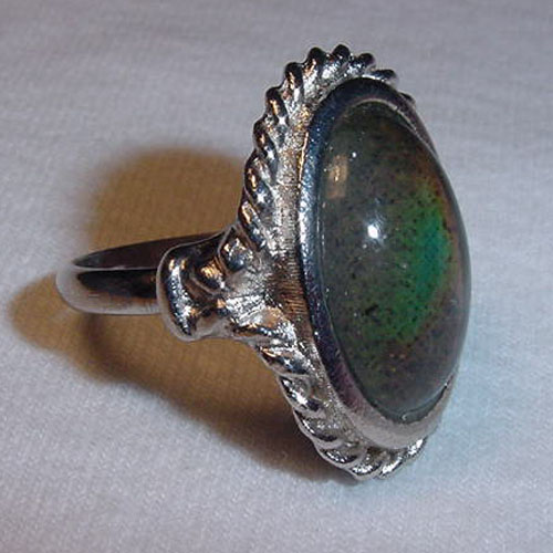 Mood ring